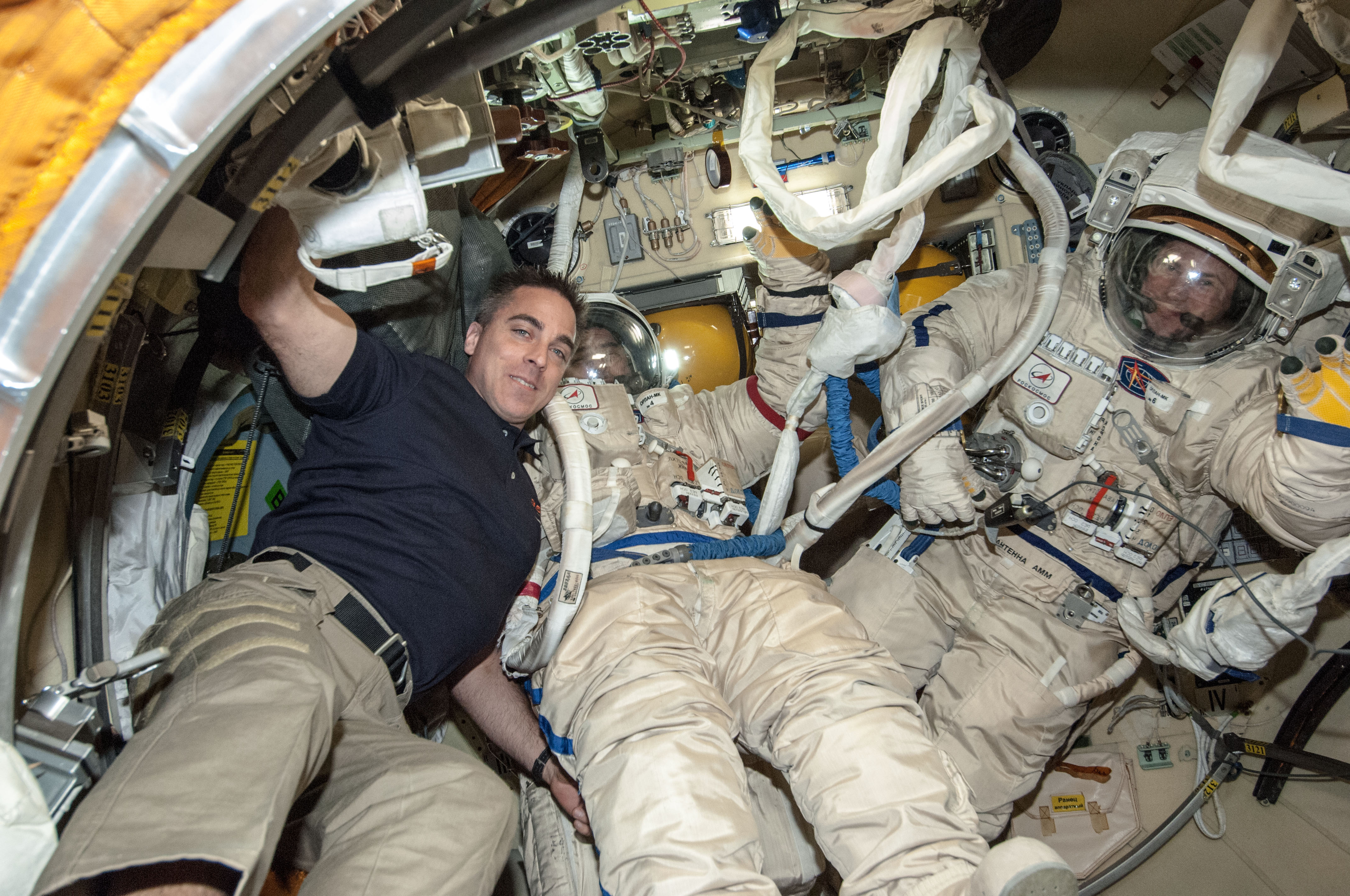 Russian cosmonauts Pavel Vinogradov (center) and Roman Romanenko (right) donned their Orlan spacesuits once again on the International Space Station on April 17. The two are seen with NASA astronaut Chris Cassidy outside the Pirs Docking Compartment airlock during a suited "dry run" dress rehearsal of the procedures they will conduct during a scheduled April 19 spacewalk. Cassidy will remain inside the orbiting complex throughout the spacewalk.